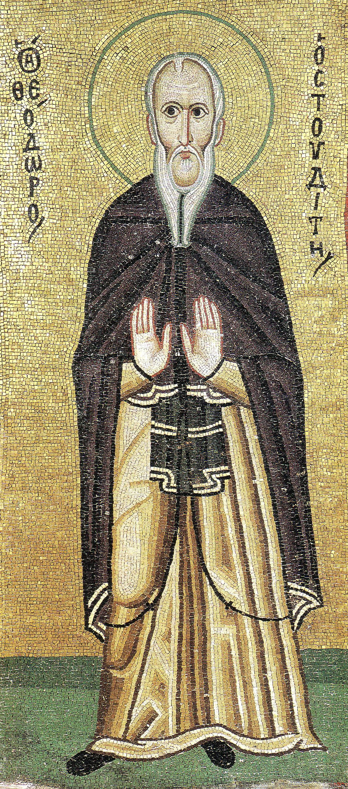 Hosios Loukas Monastery, Boeotia, Greece